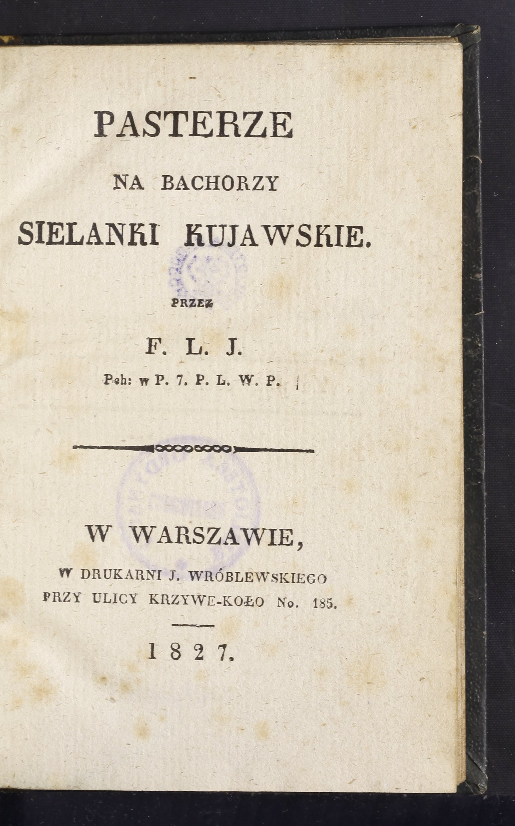 Title page of Pasterze na Bachorzy Sielanki Kujawskie by T. F. Jaskólski Published by Warsaw: in print. J. Wróblewski, 1827.